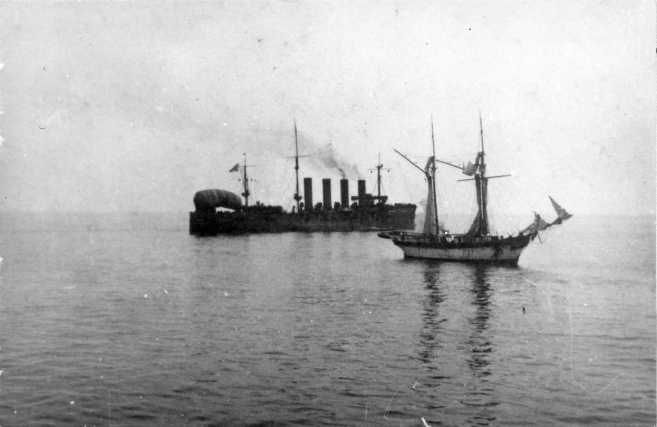 Imperial Russian cruiser Rossiya and Japanese schooner Aiya Maru. 26 Aprel 1905.